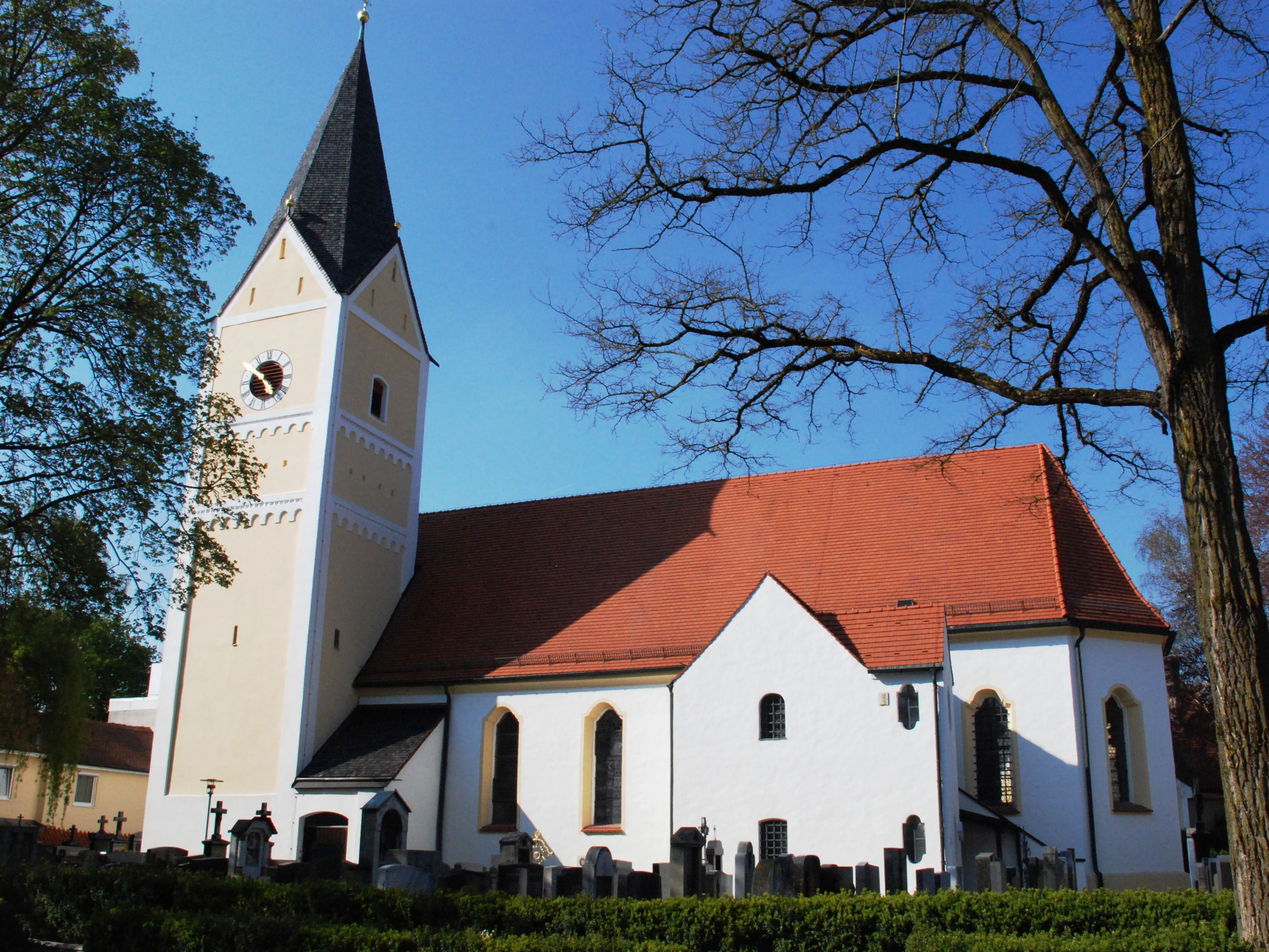 Church St. Katharina in Garching, Landkreis München. Listed as site D-1-84-119-5 in the register of historical monuments of Bavaria, Germany.